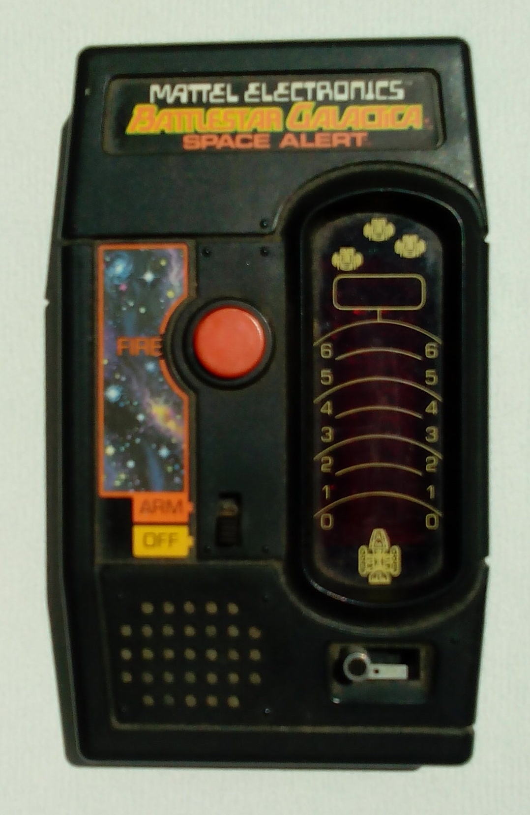 Mattel Battlestar Galactica handheld LED game, approx vintage 1978